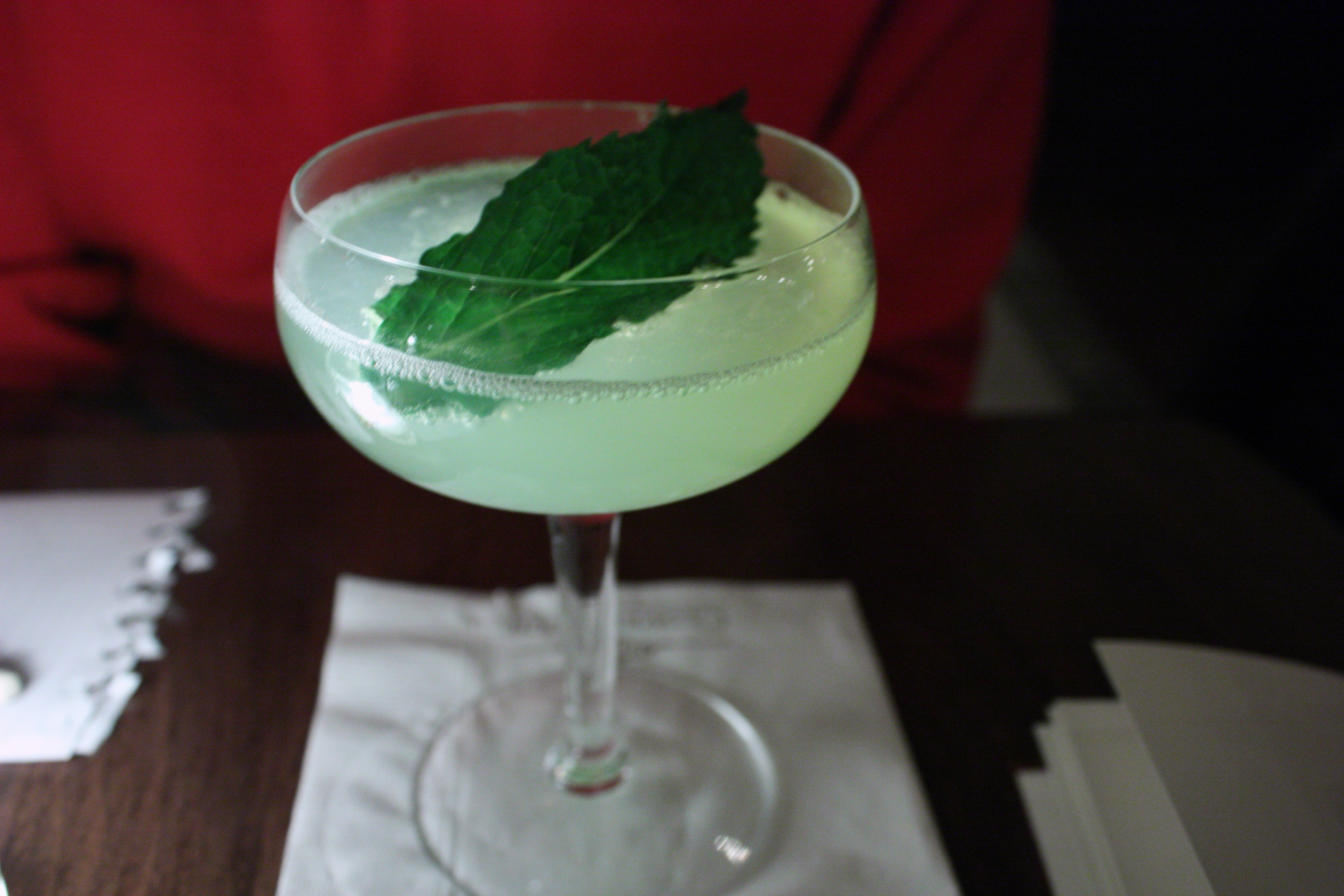 Get the full scoop